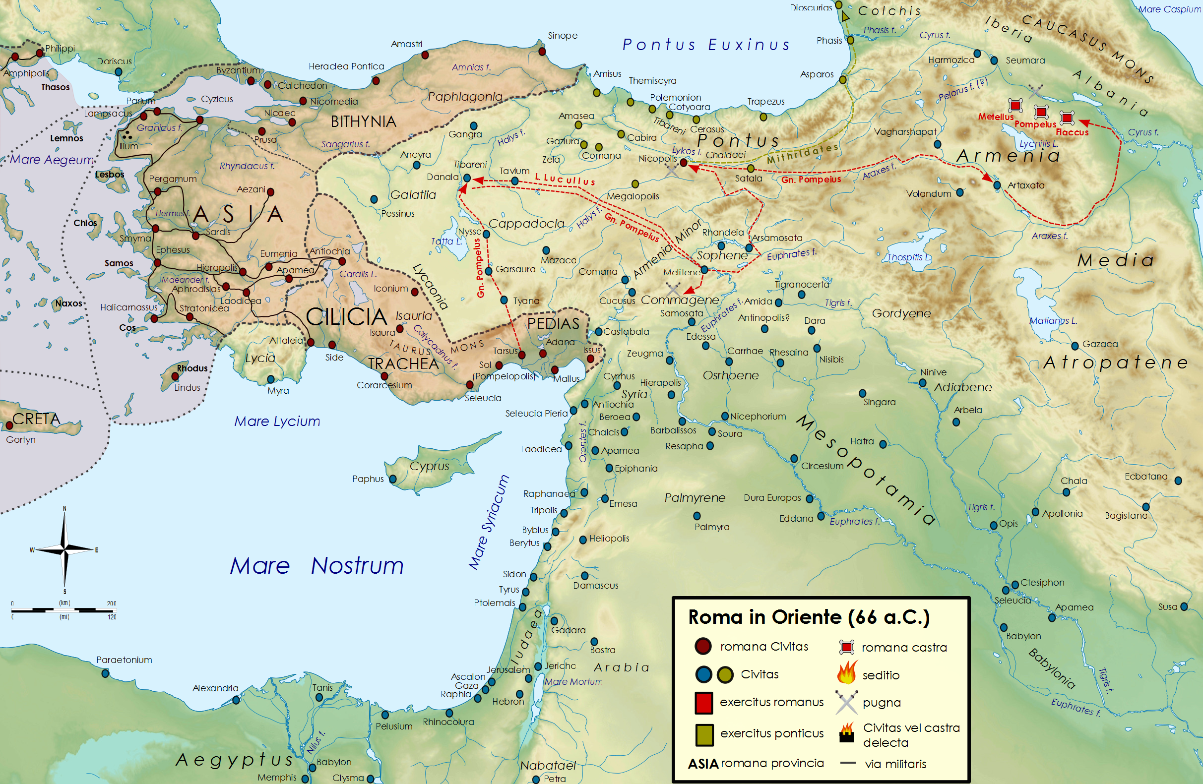 Roman republic in the Near East in 66 B.C., during the third Mithridatic War